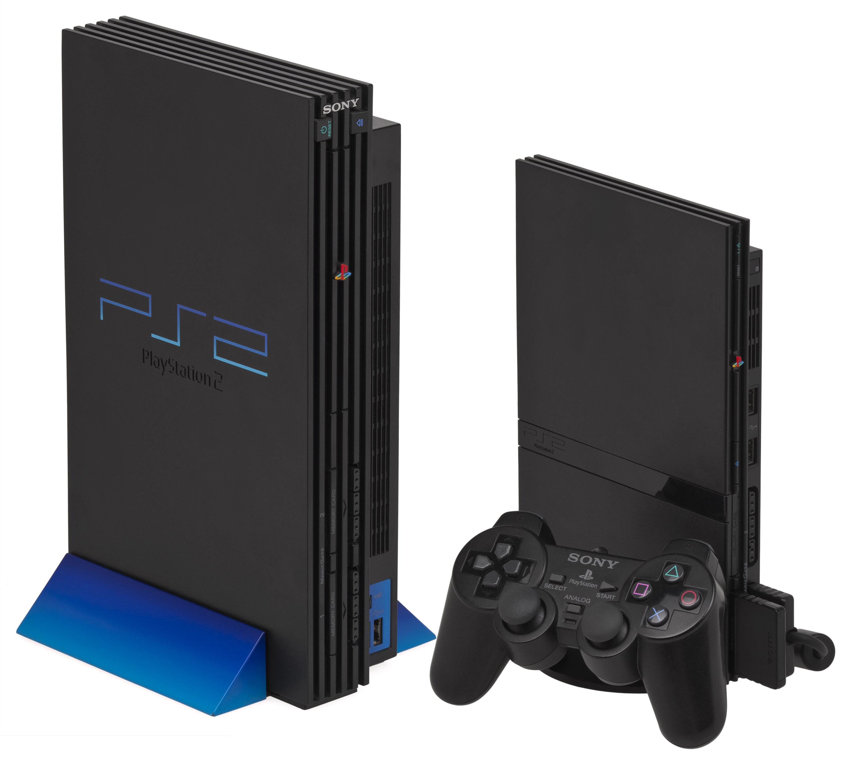 Two iterations of the PlayStation 2 console, the original and the slim. On the left is a model SCPH-30001 with a vertical stand. On the right is a slimline model SCPH-70001 with a vertical stand, a DualShock2 and 8MB memory card plugged in. This is the JPG version.